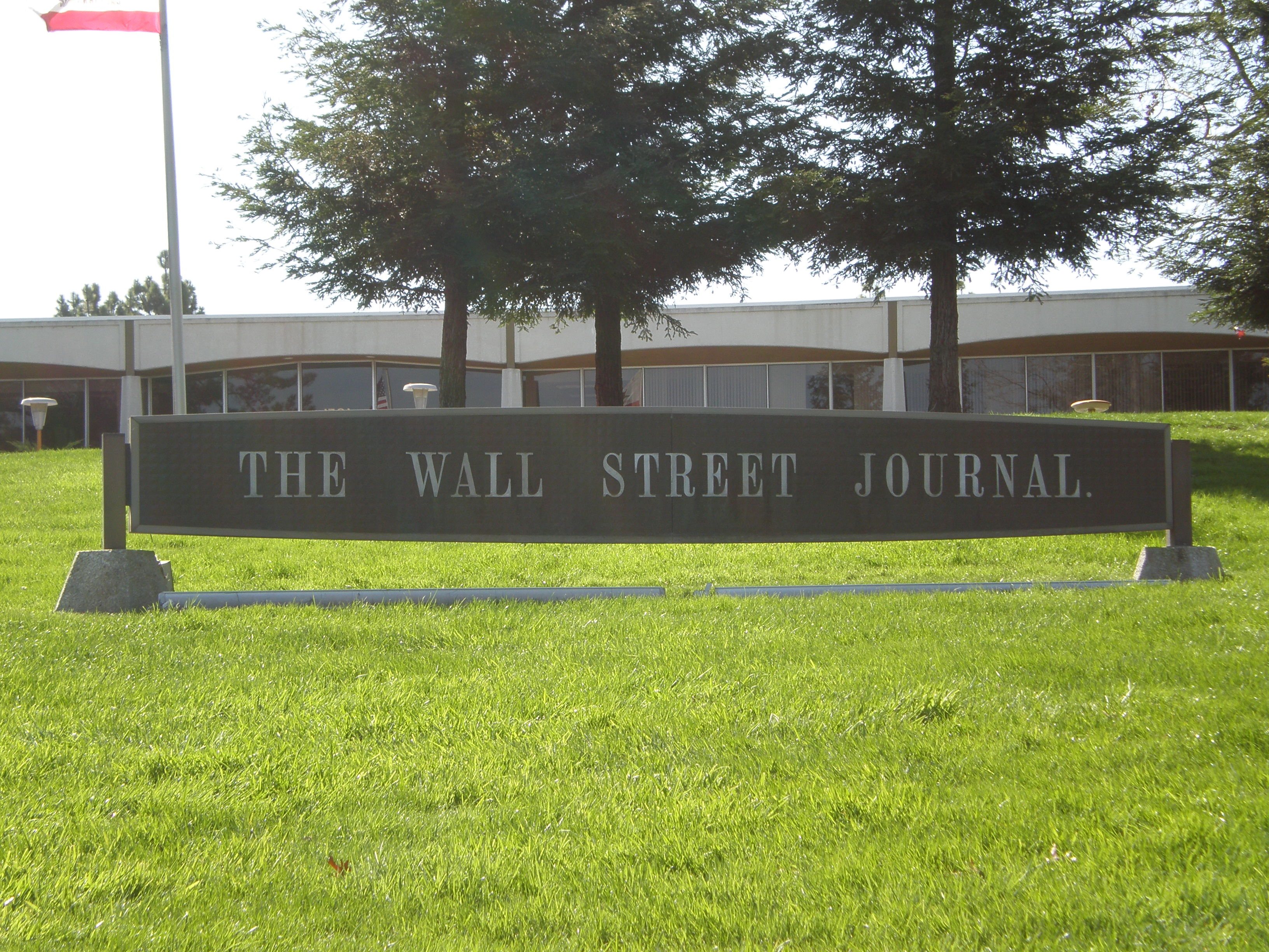 The Wall Street Journal at 1701 Page Mill Road in Palo Alto, California.